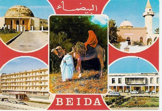 Postal card to Bayda in the sixties : Top of the image on the right (The tomb of Sidi Rafa) Top of the image on the left (Libyan parliament of Bayda) Bottom of the image on the right (Prime minister of Bayda) Bottom of the image on the left (Bayda Plaza Hotel)